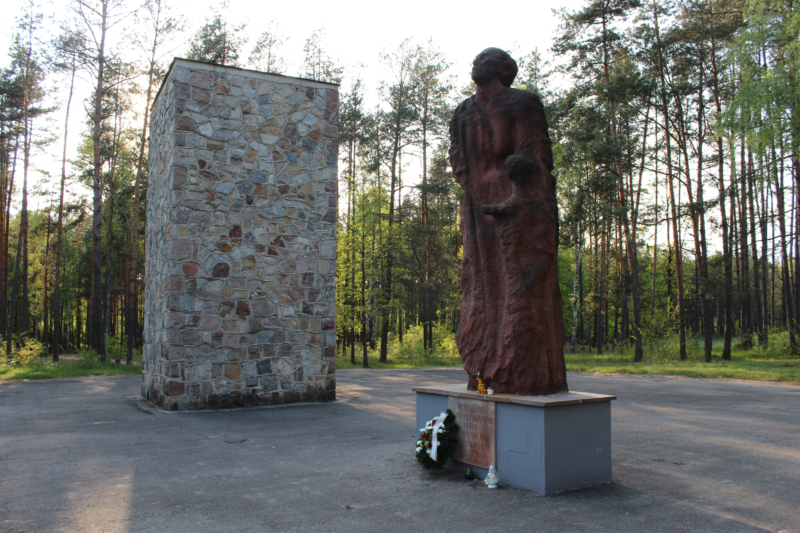 Sobibór german extermination camp